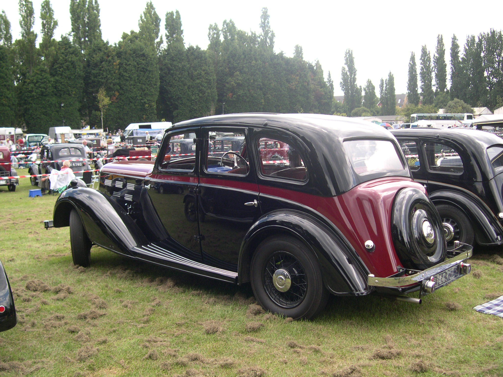 1935 Morris Twenty Five Six series II saloon